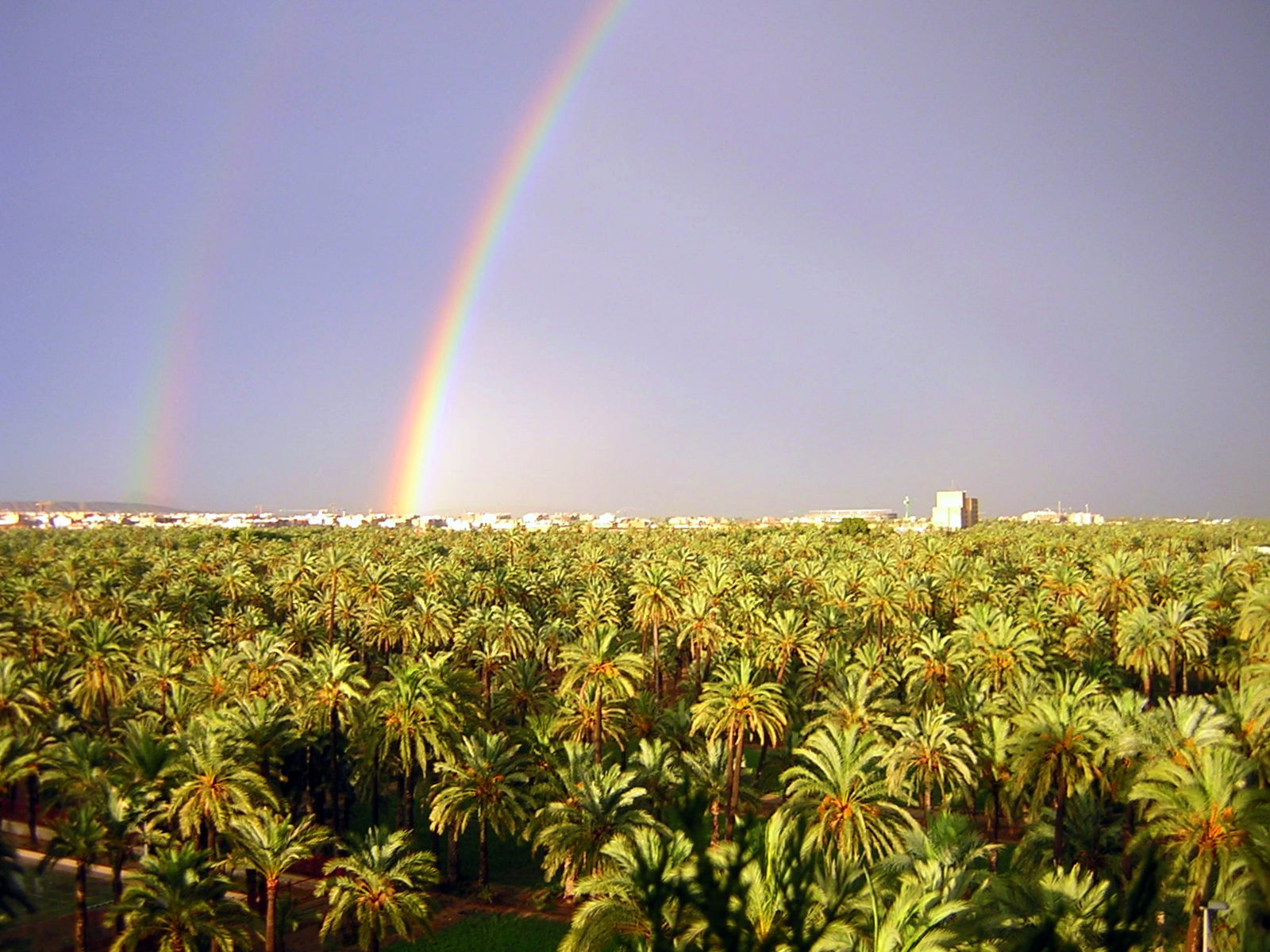 The Palmeral of Elche, with Date palms (Phoenix dactylifera), in the Valencian Community—"Land of Valencia", eastern Spain.